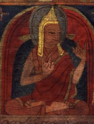 Neusurpa Yeshe Bar (b.1042 - d.1118) eleventh century Tibetan monk